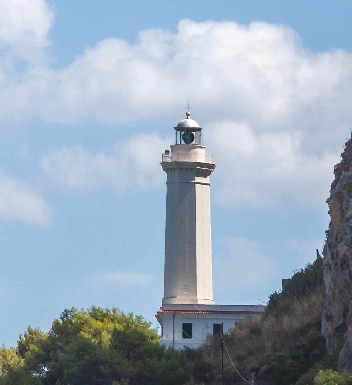 Lighthouse, Cefalú, Sicily, Italy